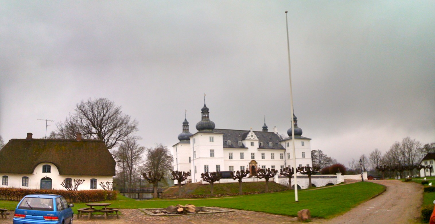 Engelsholm, a former manor house and current folk high school 14 km west of Vejle, Denmark.